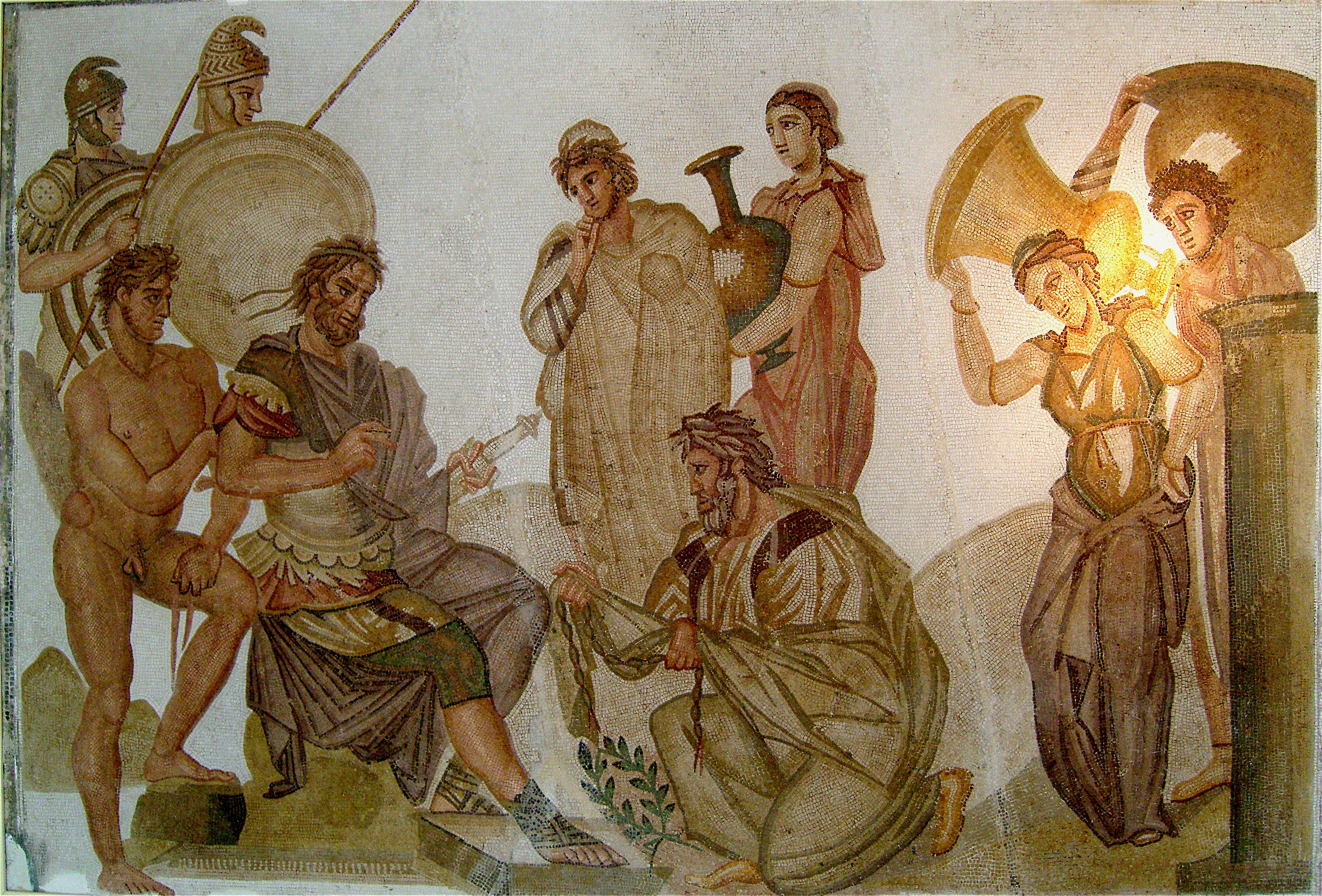 Tableau showing Chryses visit to Agamemnon to ranson his daughter Chryseis. Neapolis. House of the Nymphs. Fourth century AD.